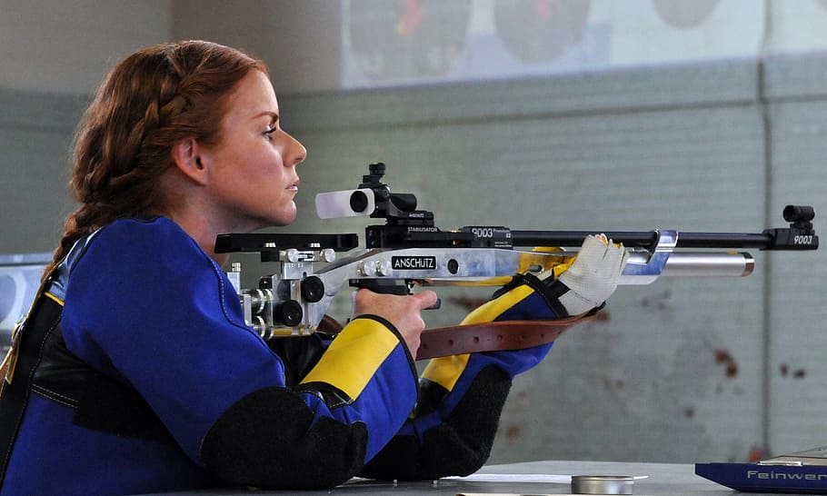 A sportwoman shooter while training running target shooting